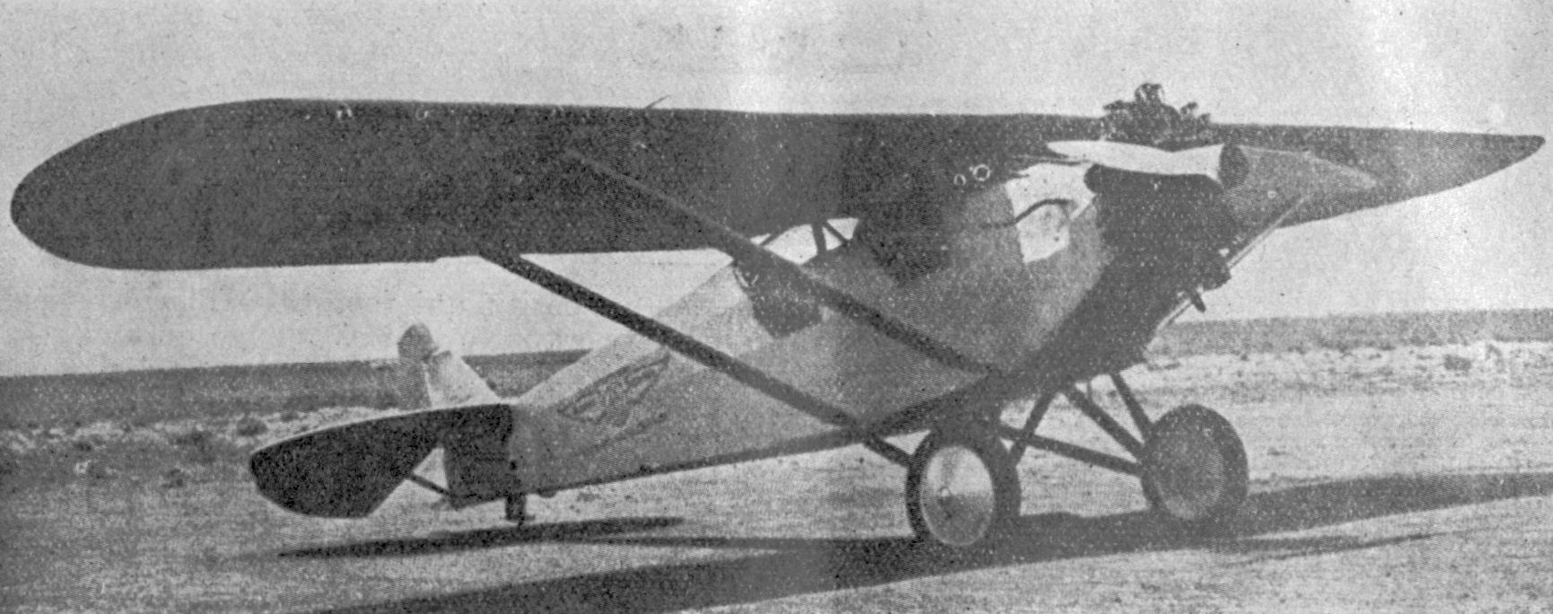 Waterhouse Cruzair photo from L'Air November 15,1926